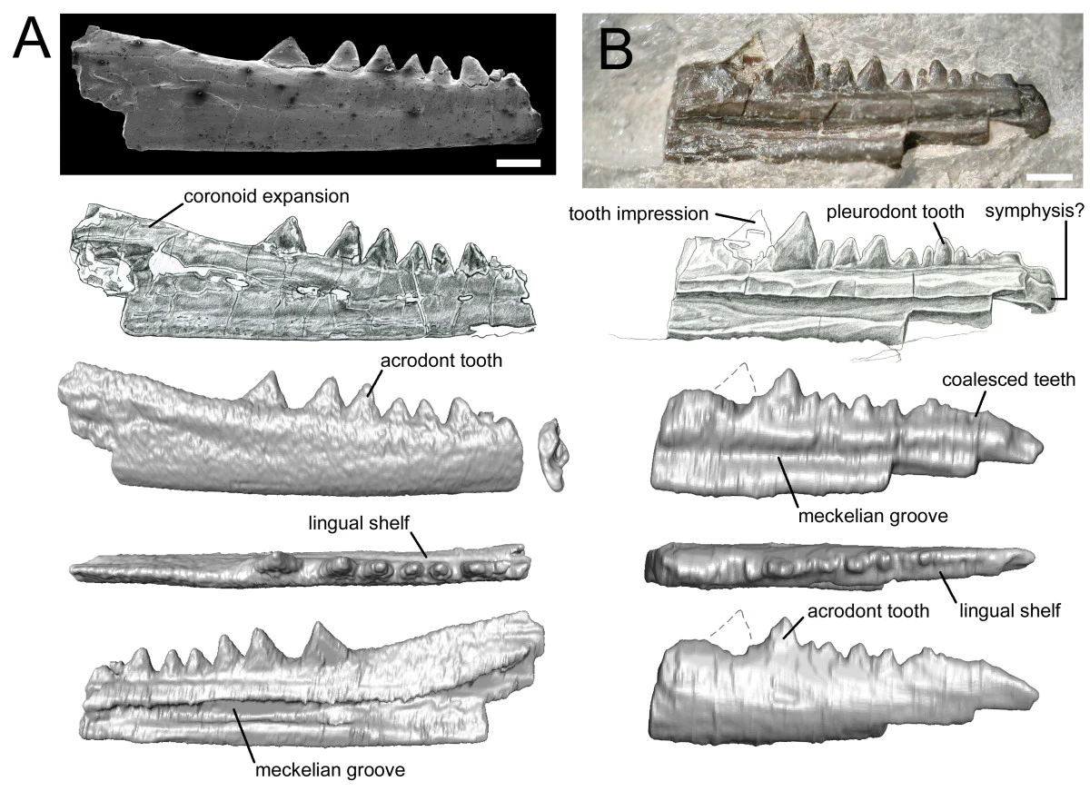 Partial rhynchocephalian dentaries from the Vellberg locality of Germany. A. Dentary SMS 91060. From top to bottom: SEM of labial aspect, drawing of labial aspect, CT model in labial, dorsal and lingual view. B. Dentary SMS 91061. From top to bottom: photo of lingual aspect, drawing of lingual aspect, CT model in lingual, dorsal and labial view. Scale bars equal 1 mm.